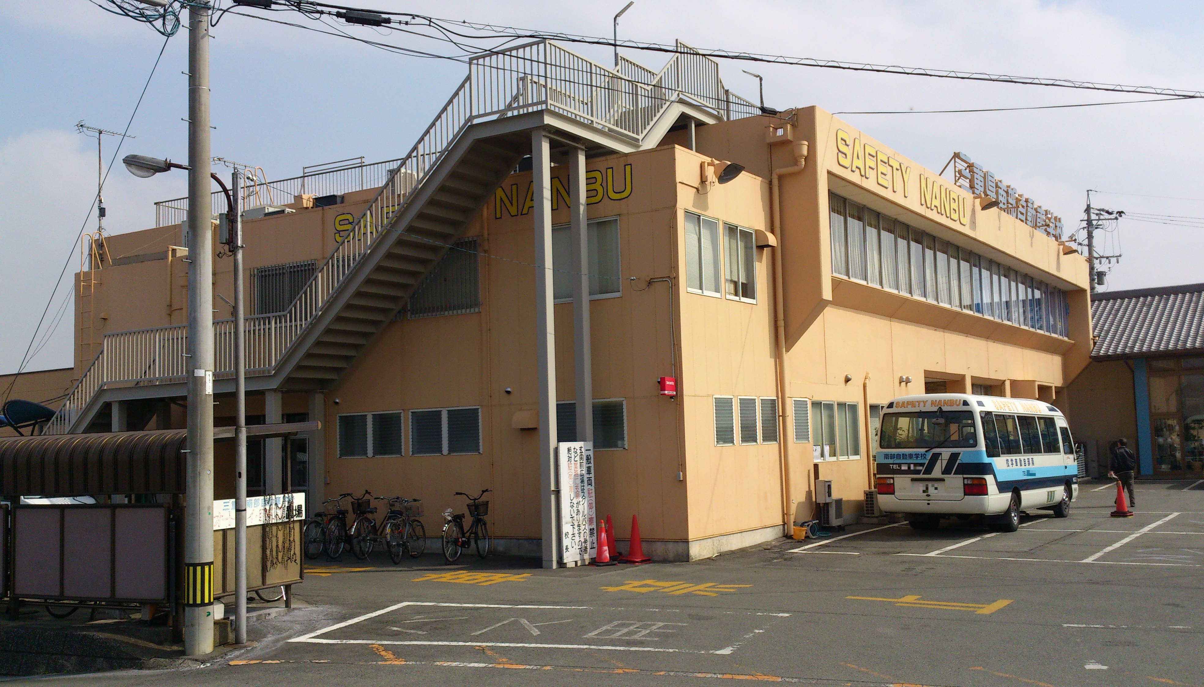 This is the Nanbu Driving School in Ise, Mie, Japan.